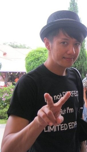 Sai Sai at a Myanmar music concert in Singapore in 2011.